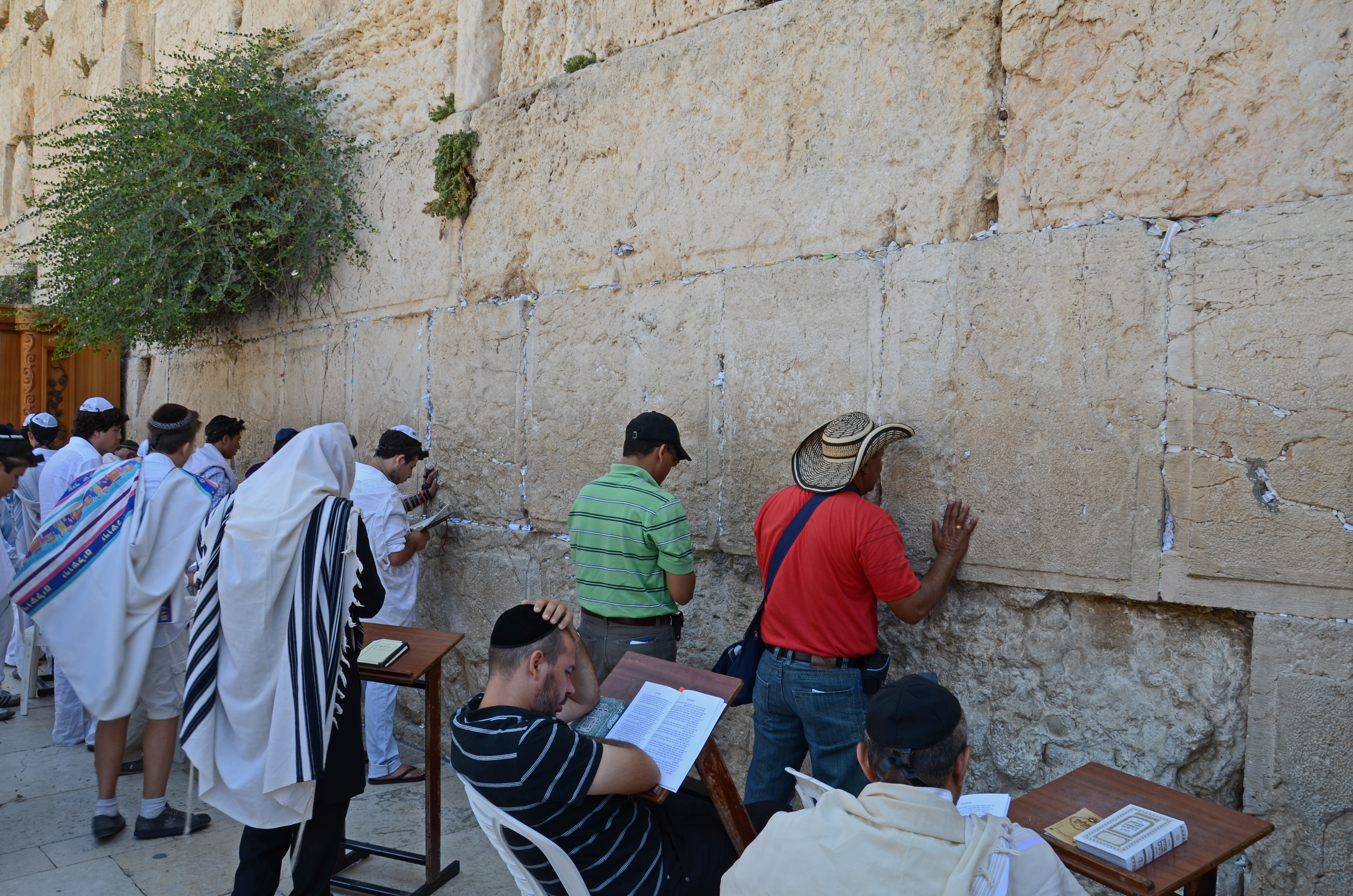 Old Jerusalem, Western Wall